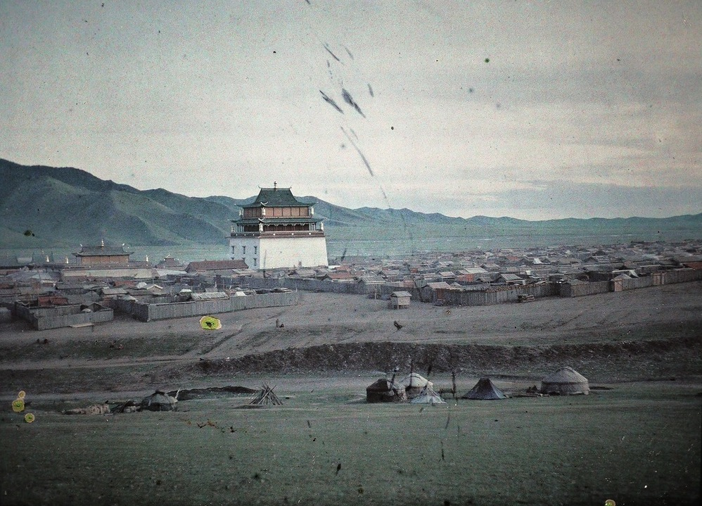 Baruun khüree or Gandantegchinlen, the town of the lamas, Urga, Mongolia.